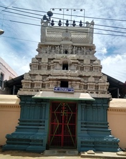 Mannargudijaintemple மன்னார்குடி சமணக்கோயில்